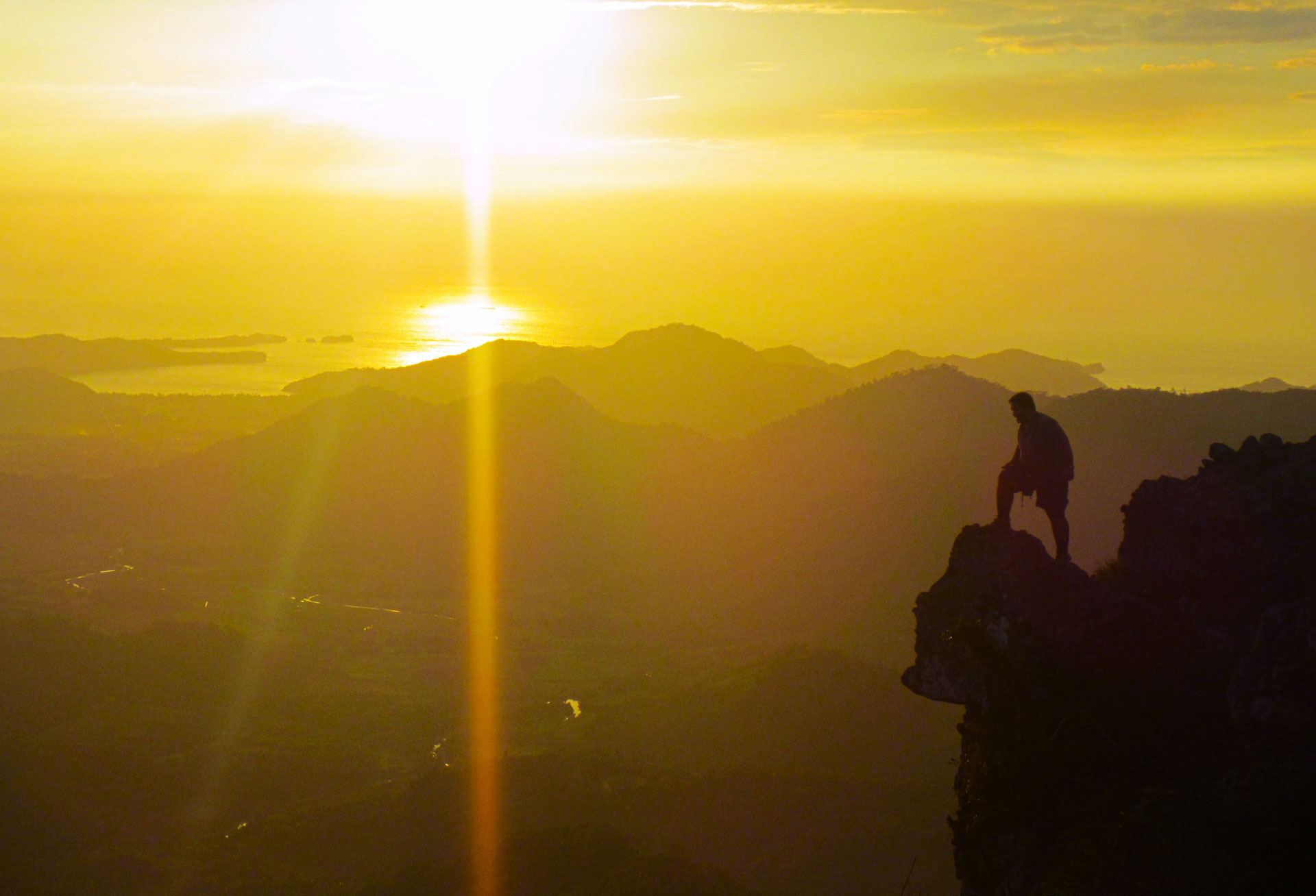 The Silyang Bato is an adjacent rock pillar feature from Mt. Marami' Summit of Maragondon, Cavite in the Philippines that is around 605 meters above sea level. Shot by Schadow1 Expeditions during its mapping expedition to Mataas na Gulod Palay Palay mountain range of Cavite of 2014.